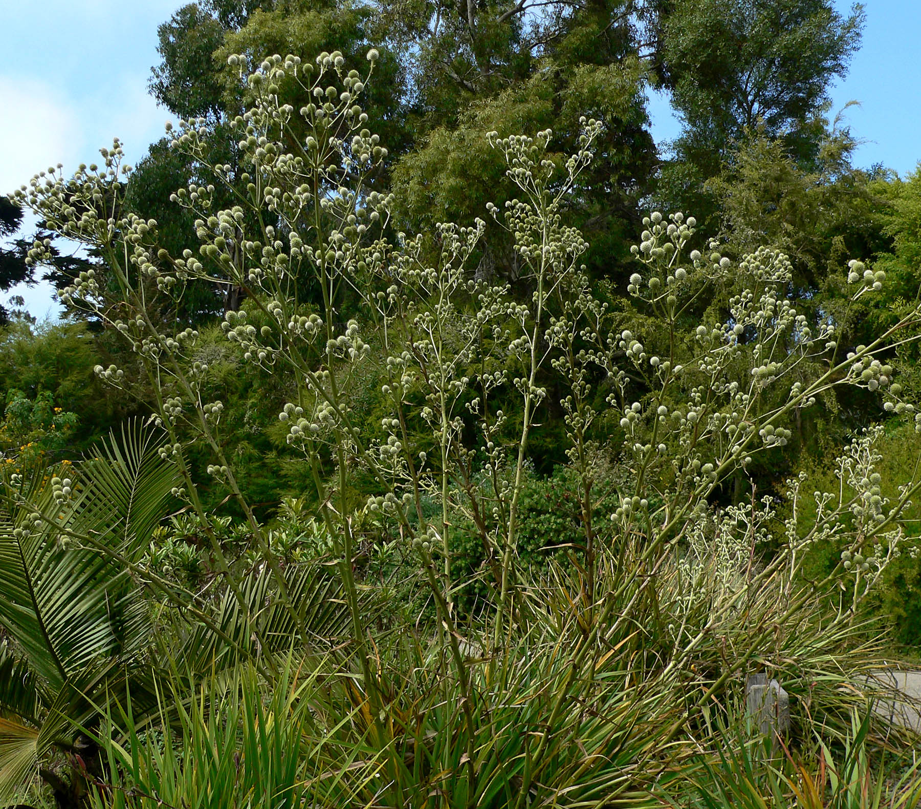 Photo of Eryngium paniculatum at the San Francisco Botanical Garden